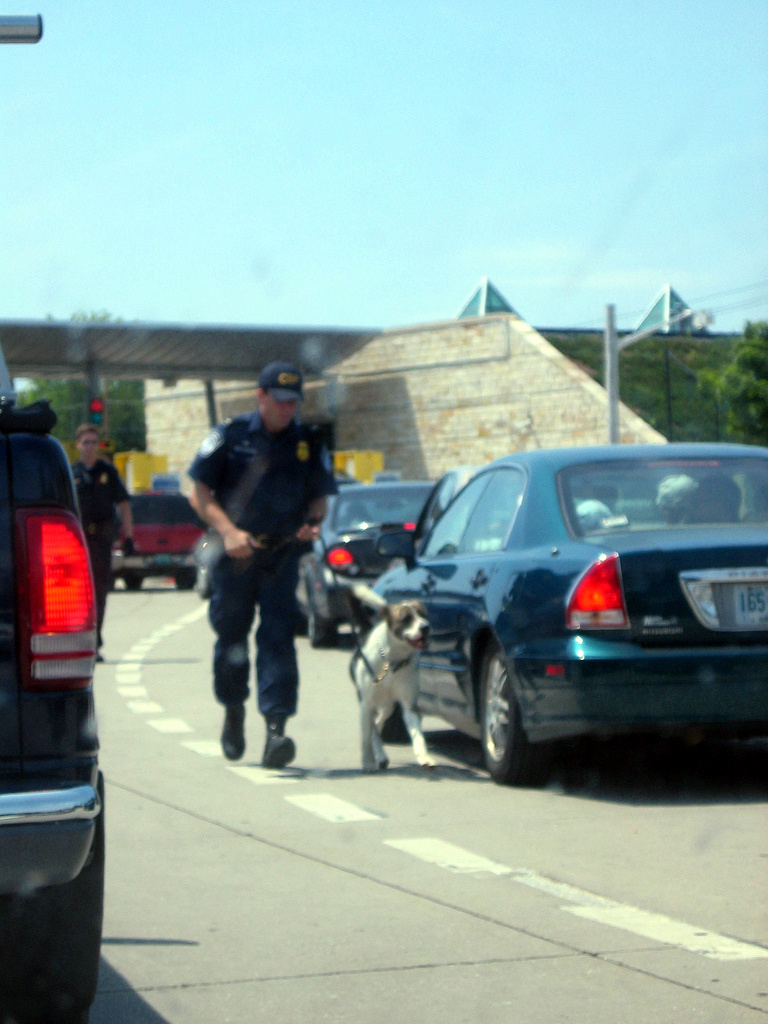 A detection dog at the Canadian/American border